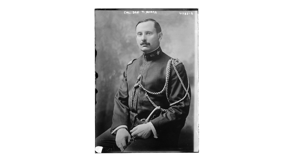 Photograph shows Colonel Dan Tyler Moore who was a military aide to President Theodore Roosevelt. Photograph published in The Sun, November 4, 1917.